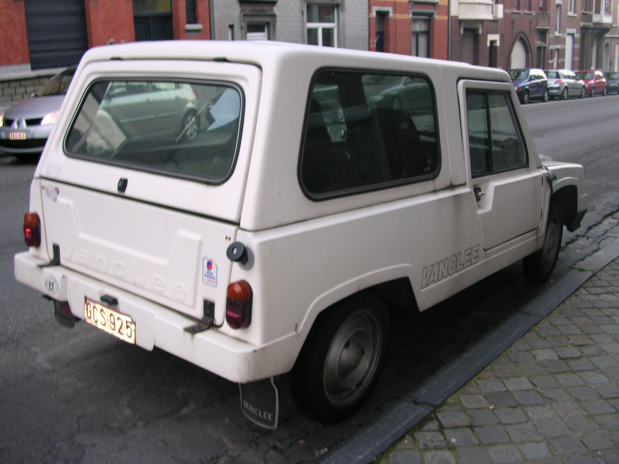 Vanclee Mungo kit on Citroën 2CV, seen in Liege